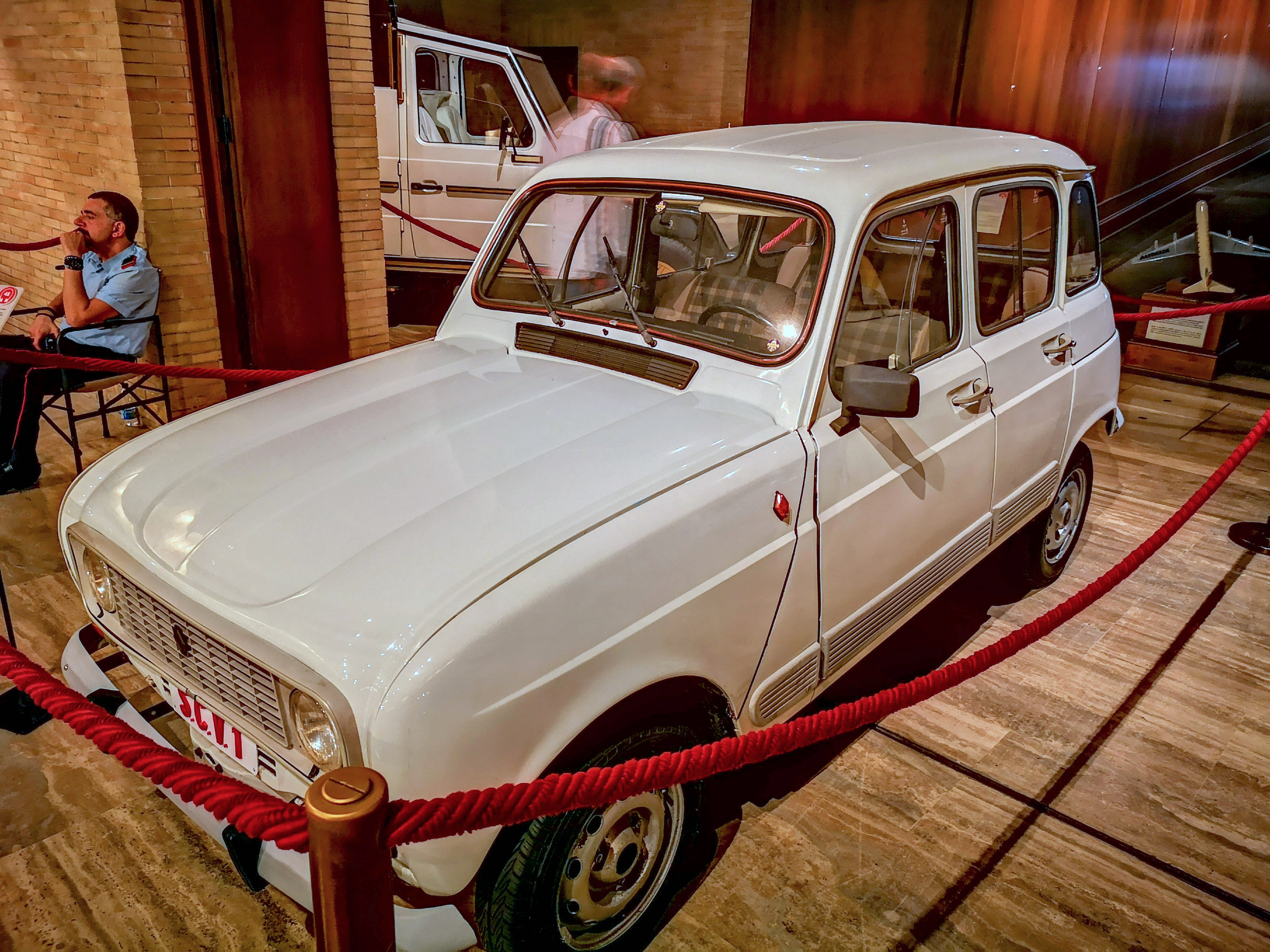 As of September 2013 Pope Francis owns a 1984 Renault 4. It was given to him by its previous owner – Father Renzo Zocca, a priest in northern Italy. Vatican museum.